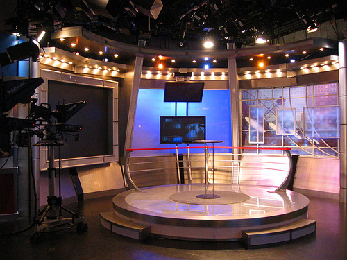 The RNN talk set, Rye Brook, NY, July 2006. Author: Ethan S. Klapper